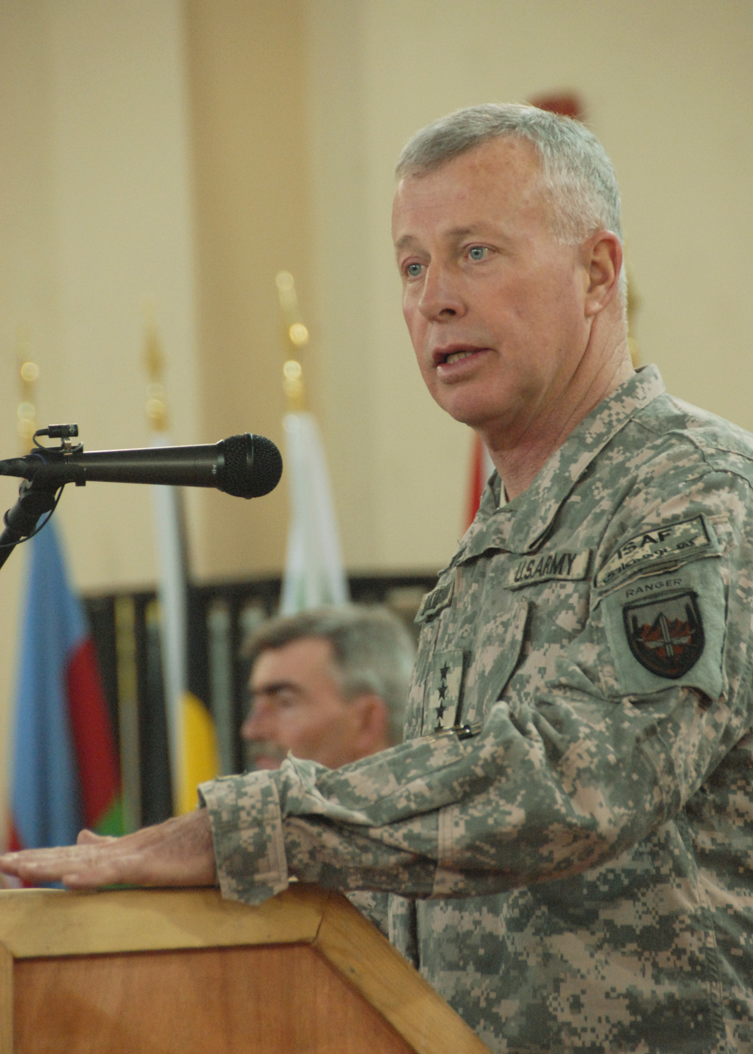 KABUL, Afghanistan--General David McKiernan, Commander, International Security Assistance Force (ISAF), addresses the audience during the Chief of Staff change of command ceremony held in the gymnasium of ISAF Headquarters on January 3, 2009. At the ceremony, German Major General Hans-Lothar Domrose was relieved by Italian Major General Marco Bertolini, completing his one-year tour in Afghanistan. ISAF Photo by U.S. Navy Petty Officer Aramis X. Ramirez (RELEASED)